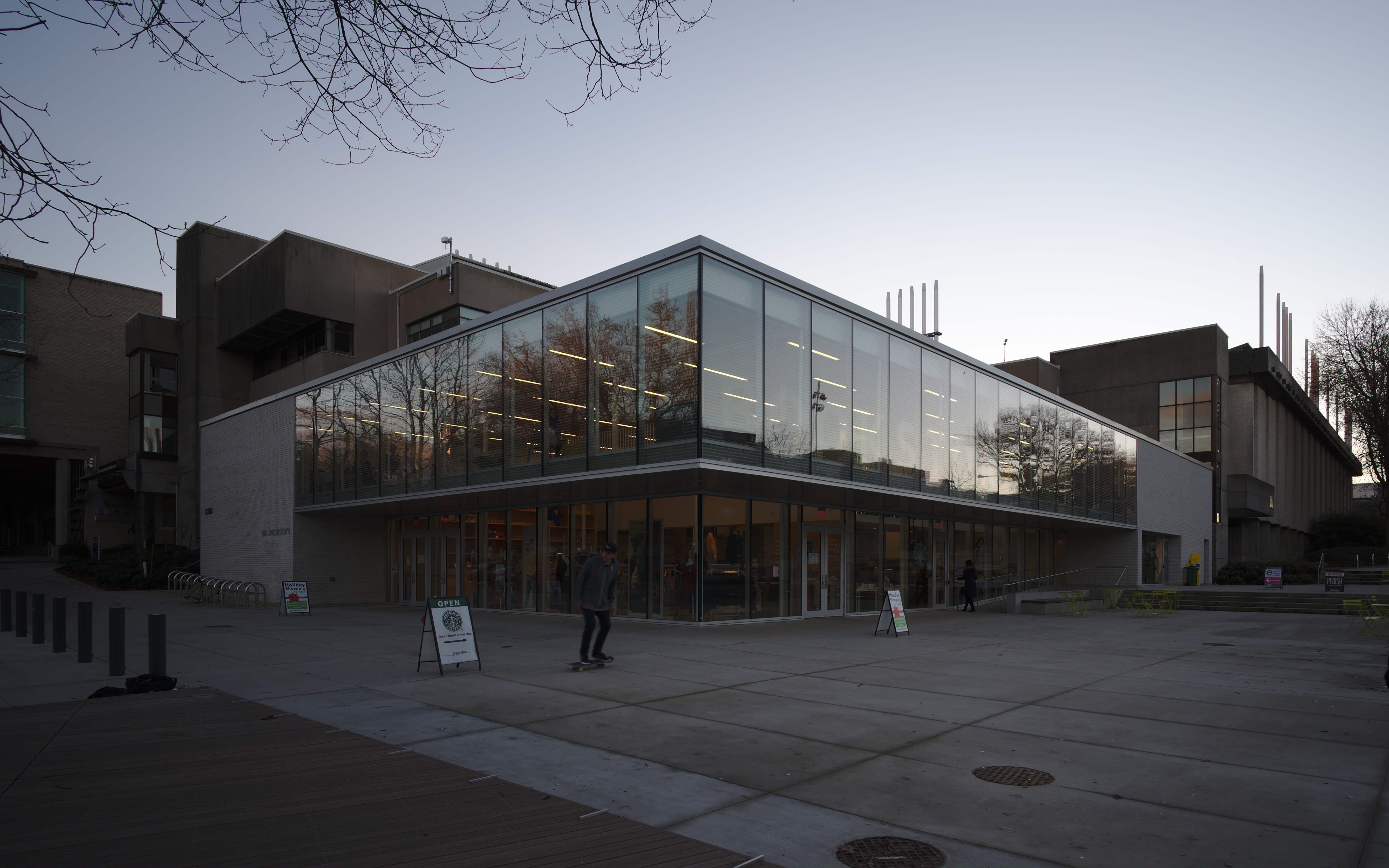 The Bookstore at the University of British Columbia in Vancouver, British Columbia, Canada was renovated an expanded in 2014.